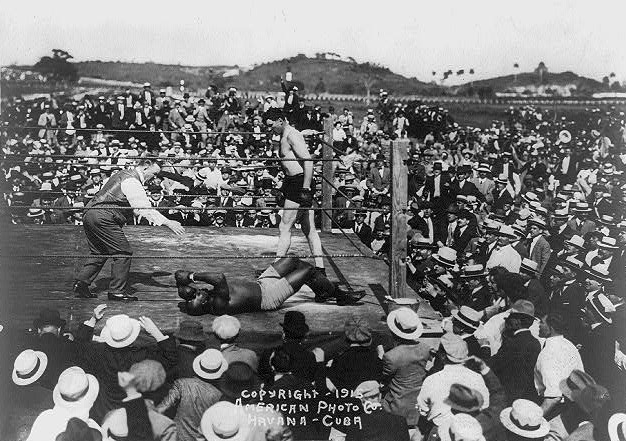 Knockout -- Willard-Johnson fight, Havana